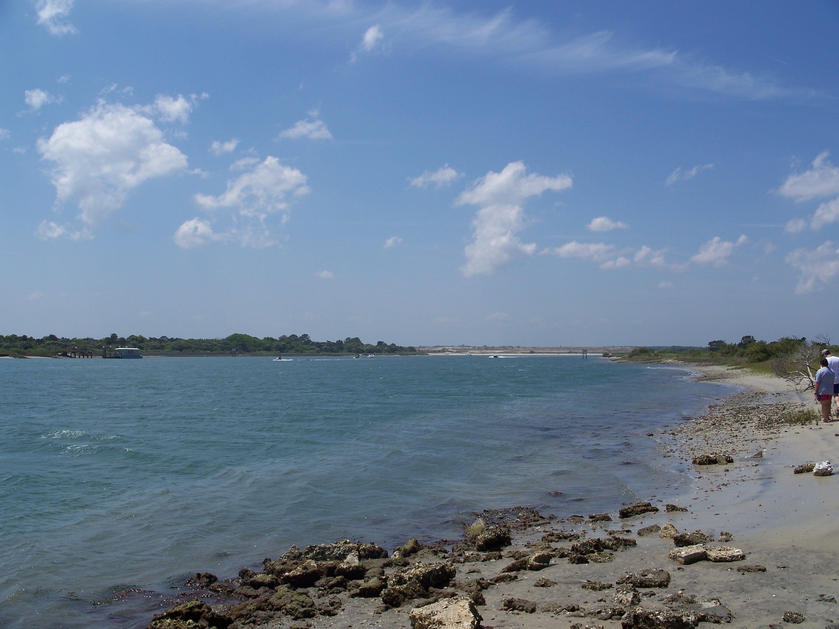 Matanzas River near Fort Matanzas, in St. Johns County, Florida